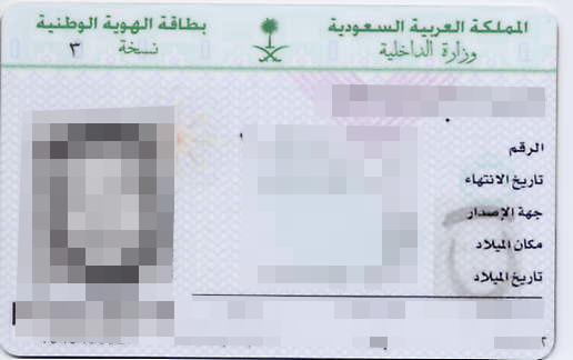 3rd edition. Black and white cover photography.